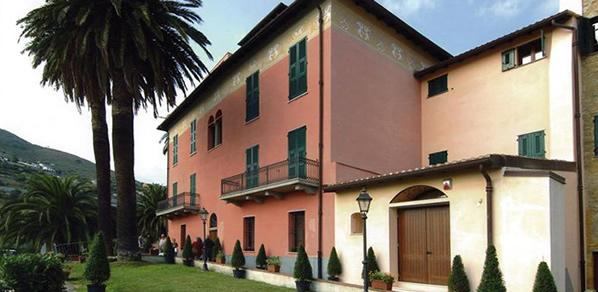 The Rambaldi museum and library, located in the Ligurian village of Coldirodi.